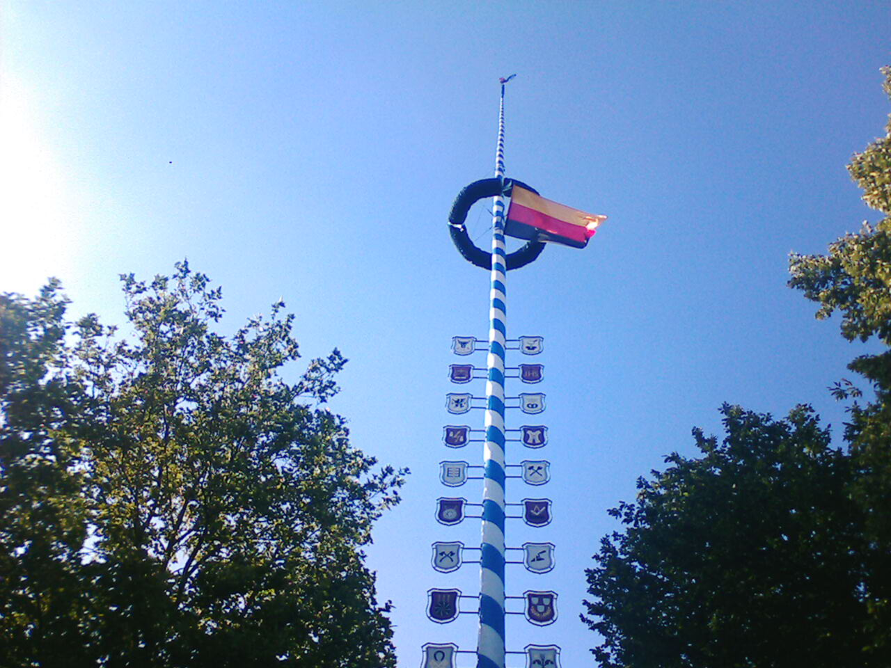 Maypole in Markt Schwaben/Bavaria/Germany with German national flag during the 2008 European Soccer Championship